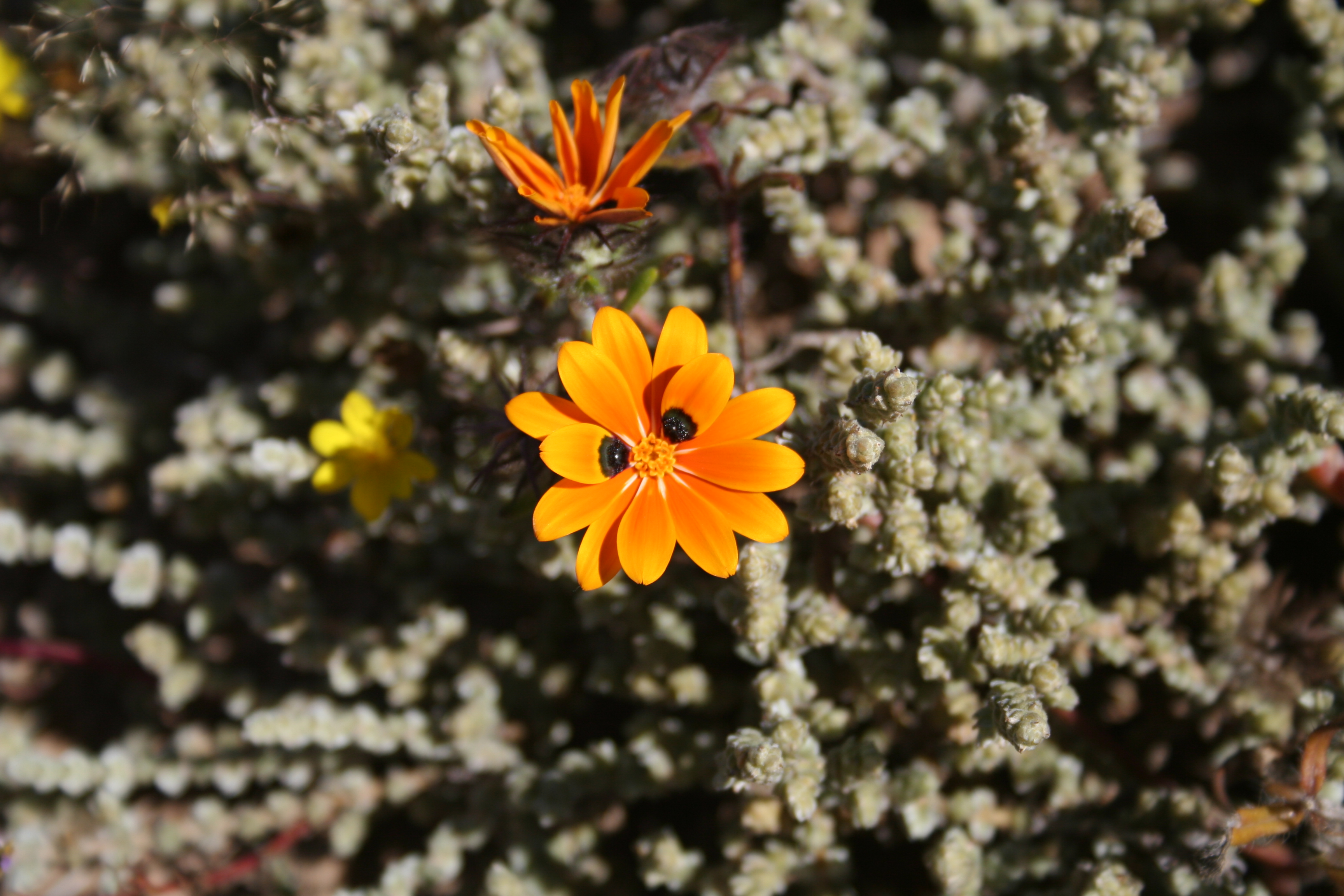 Gorteria diffusa, Knersvlakte, South Africa